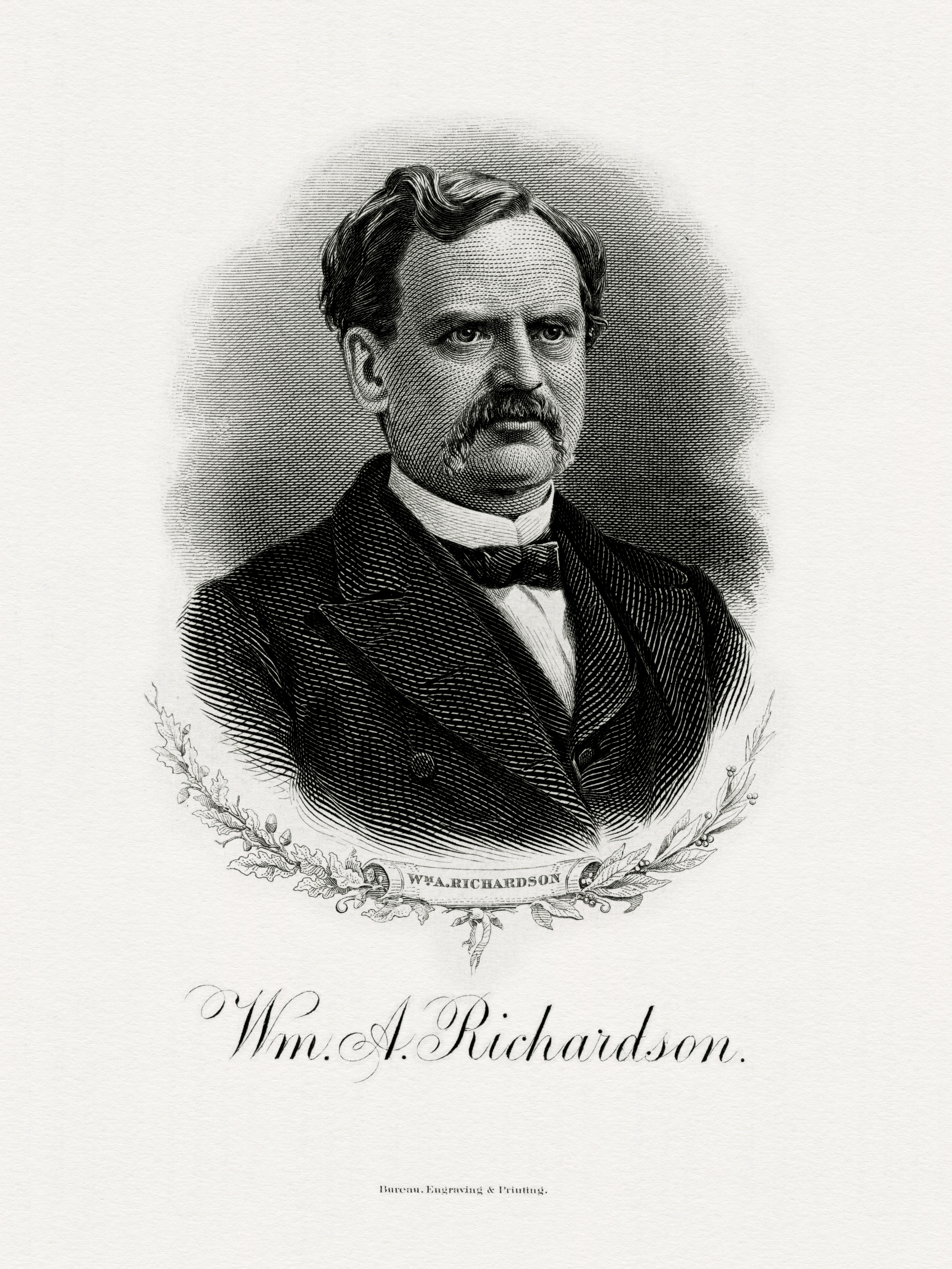 Engraved BEP portrait of U.S. Secretary of the Treasury William Adams Richardson